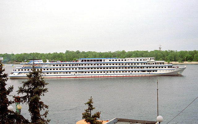 General Vatutin Project 302 - Kiev 2004